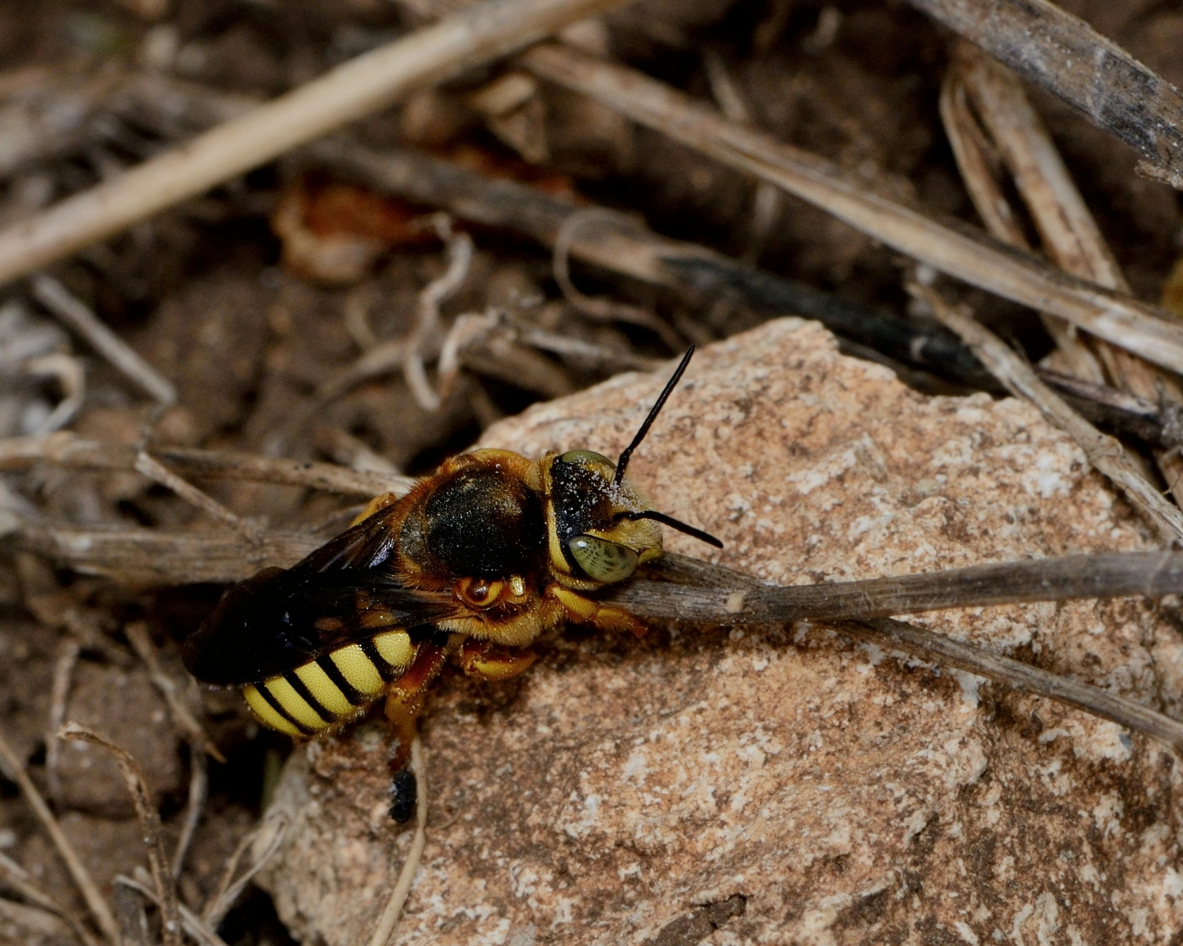 Rhodanthidium septemdentatum male, Mount Carmel, Israel, April 19, 2012. Det. Andreas Mueller 2013.